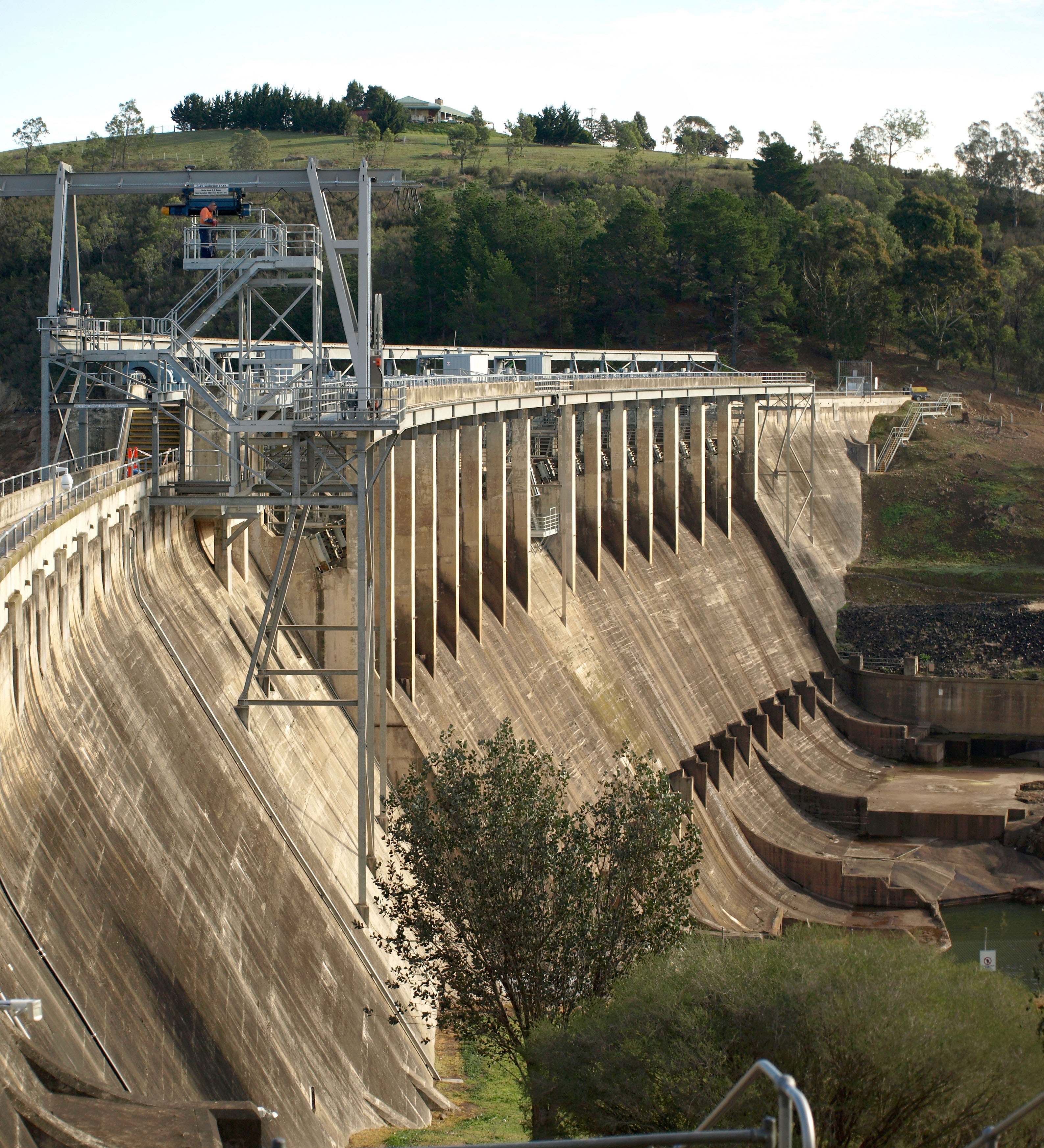 Downstream face as seen from the visitor platform.